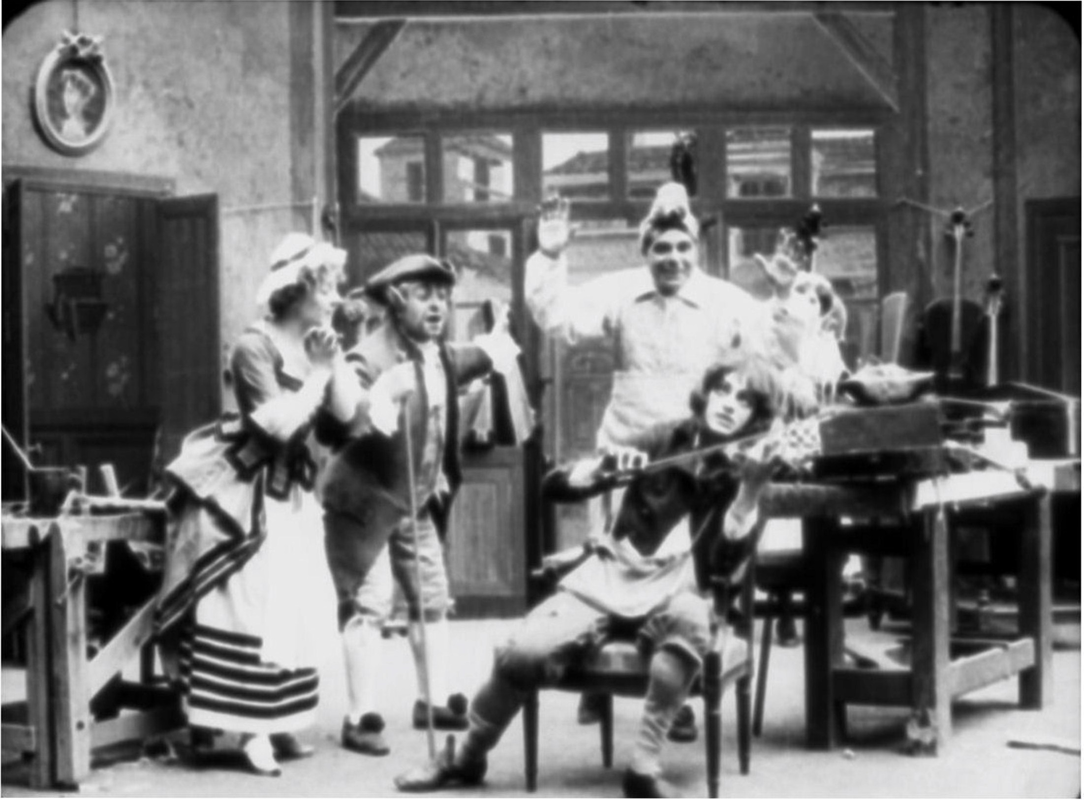 Film director Albert Capellani hires actress Amélie Diéterle in the film Le Luthier de Crémone after François Coppée's play in 1909. She plays the role of Giannina, left on the photograph. Amélie Diéterle is a French actress born in Strasbourg on February 20, 1871 and died in Cannes on January 20, 1941. She was legitimated in Paris in 1892 by Captain Louis Laurent, Knight of the Legion of Honor. Amélie Diéterle married in Vallauris on June 16th, 1930 with André Simon (1877-1965). Amélie Diéterle plays mainly at the Théâtre des Variétés in Paris during the Belle Époque.